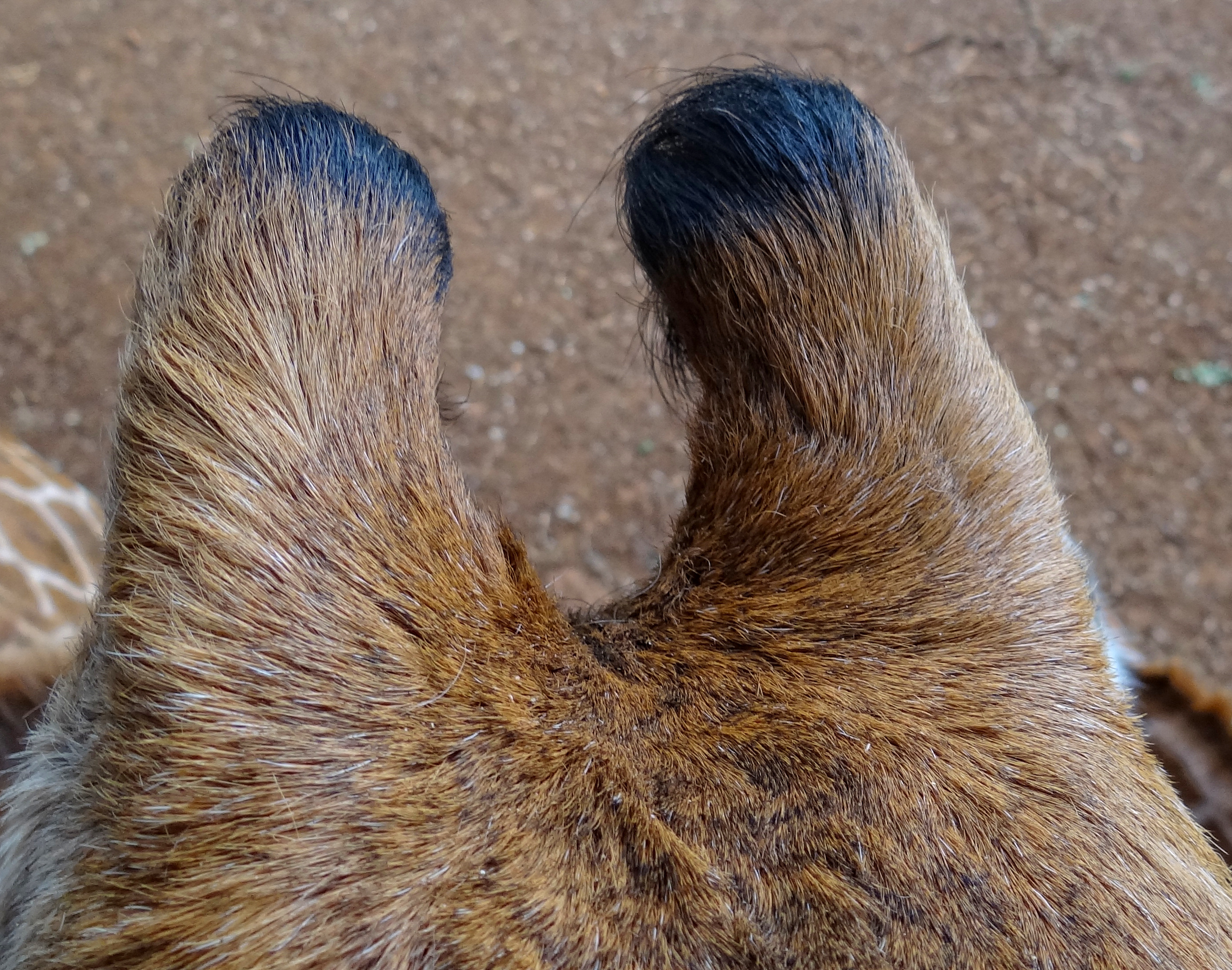 A pair of ossicones on a Rothschild giraffe, bred at the Giraffe Centre on the outskirts of Nairobi, Kenya.